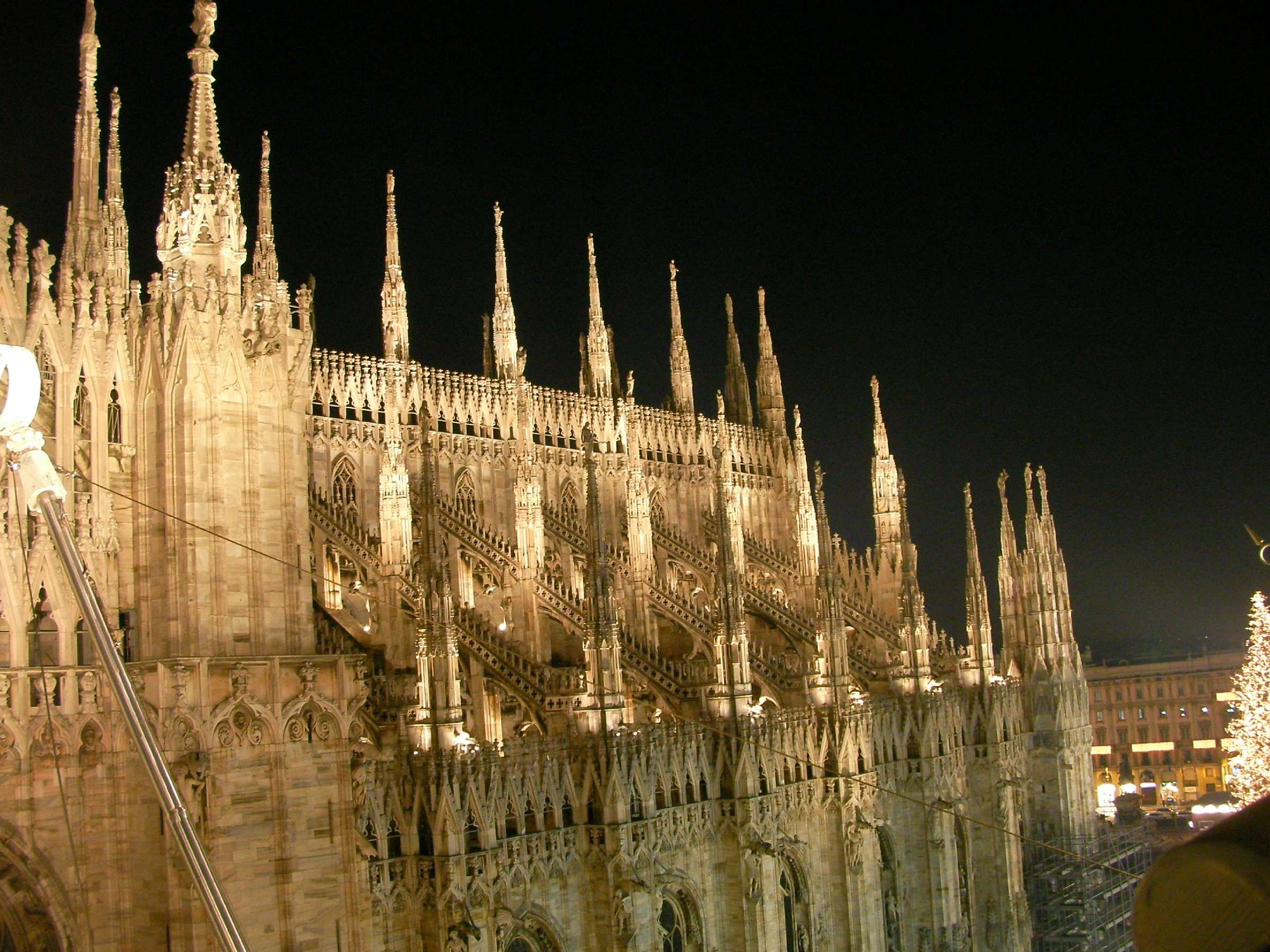 The roof of the Cathedral (Duomo) in Milan at night. You can see at right the Christmas tree of the city.